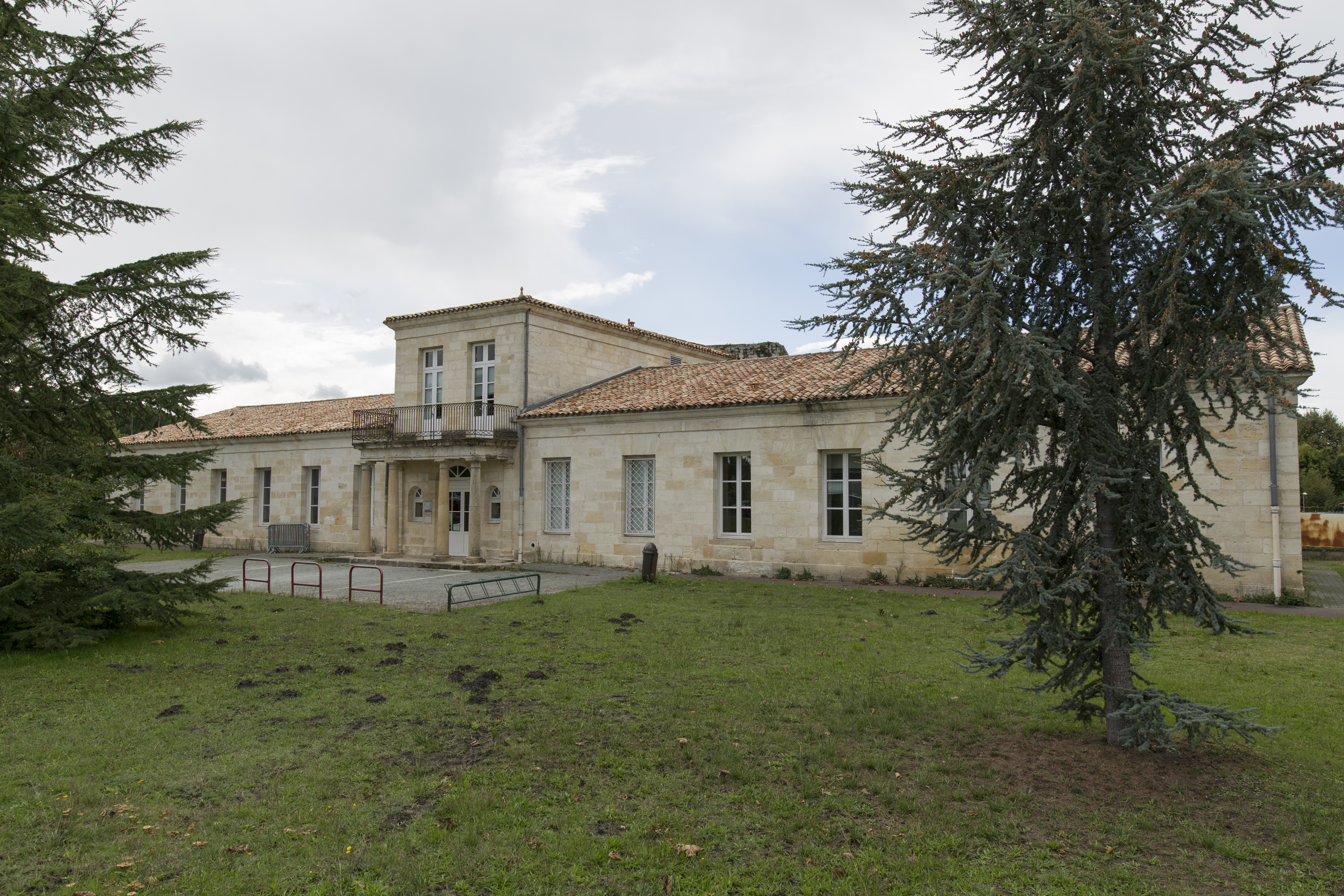 Domaine de Fantaisie